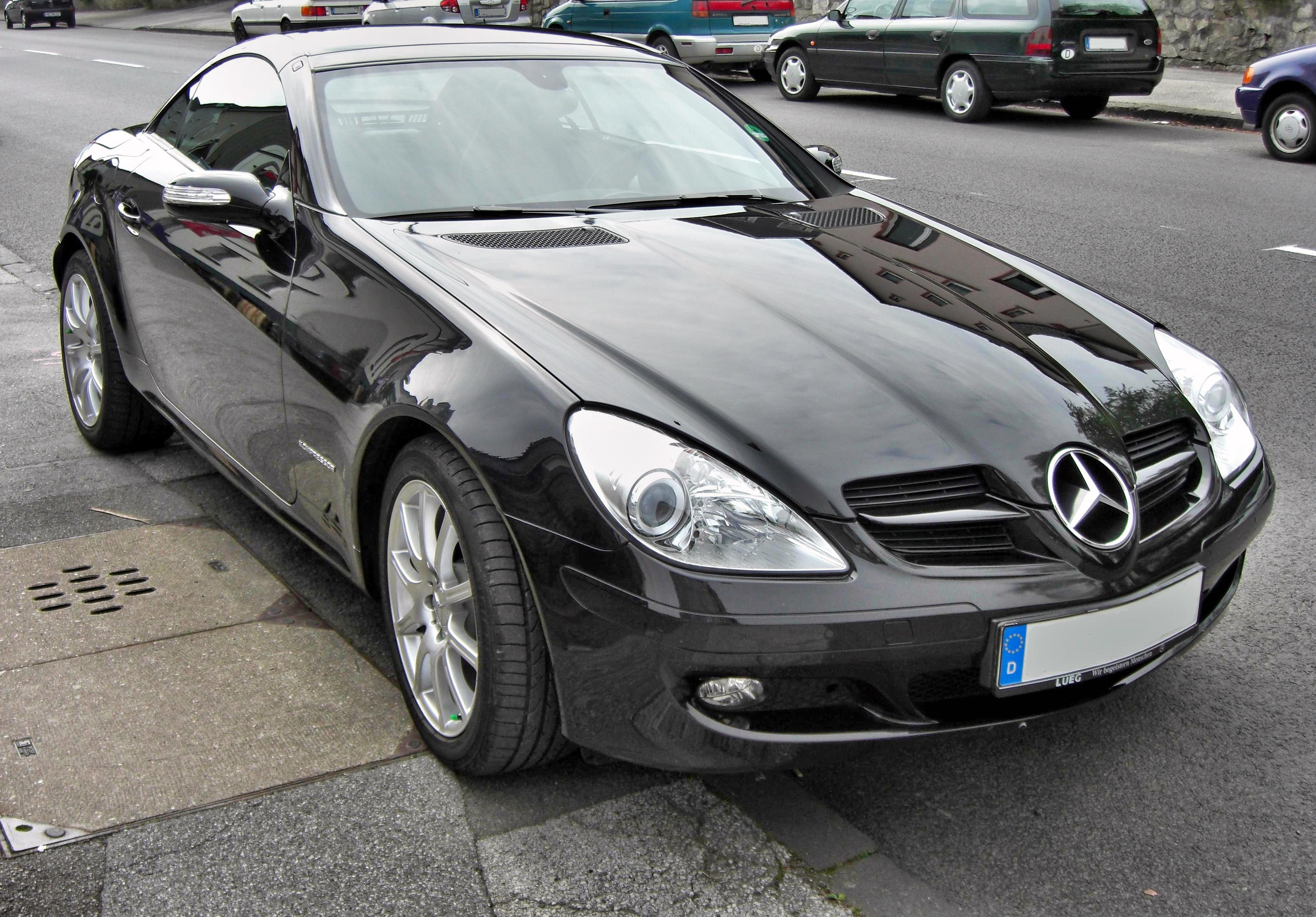 Mercedes SLK 200 Kompressor